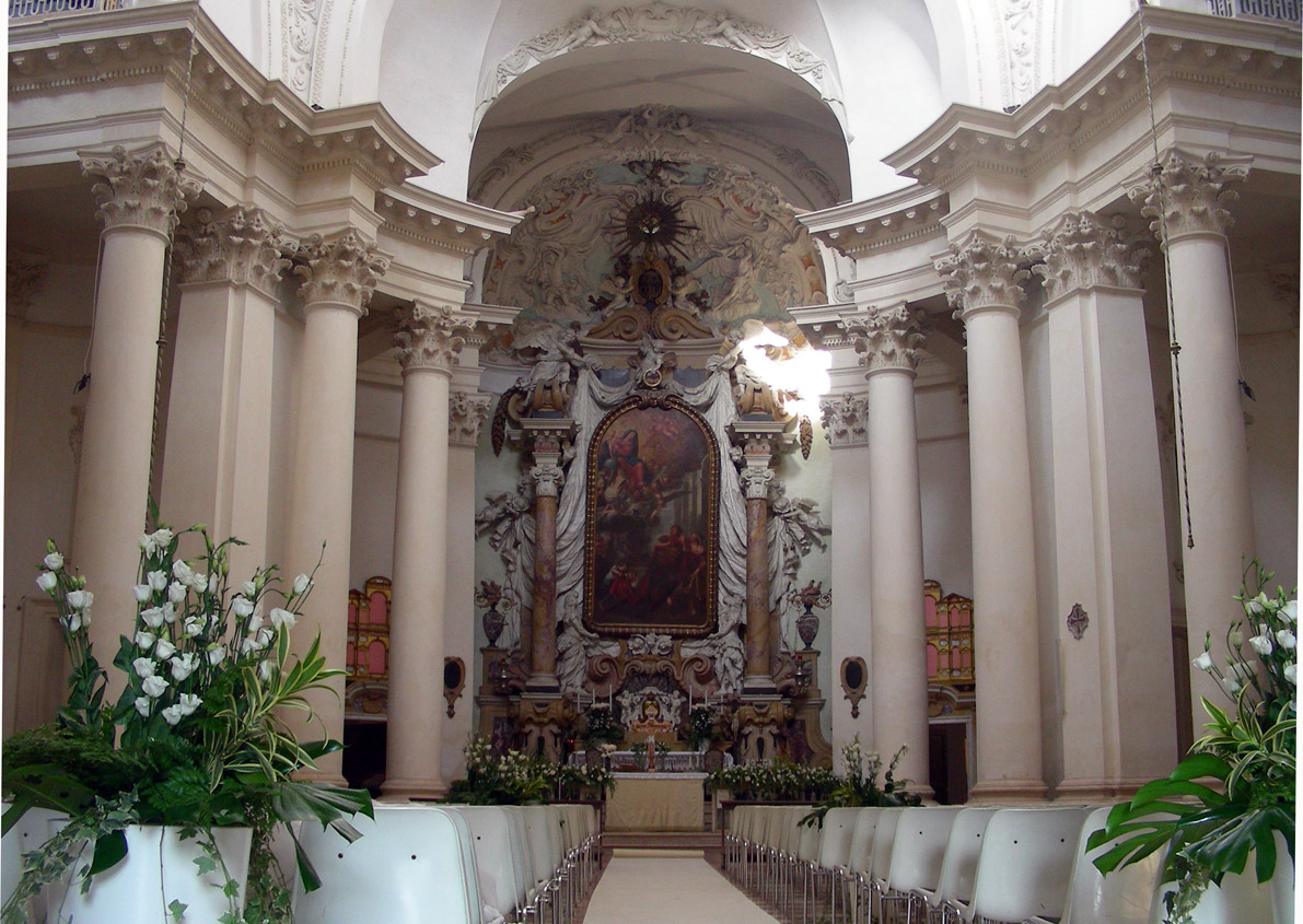 Italy, Veneto, Vicenza, church of Santa Maria in Araceli, inside